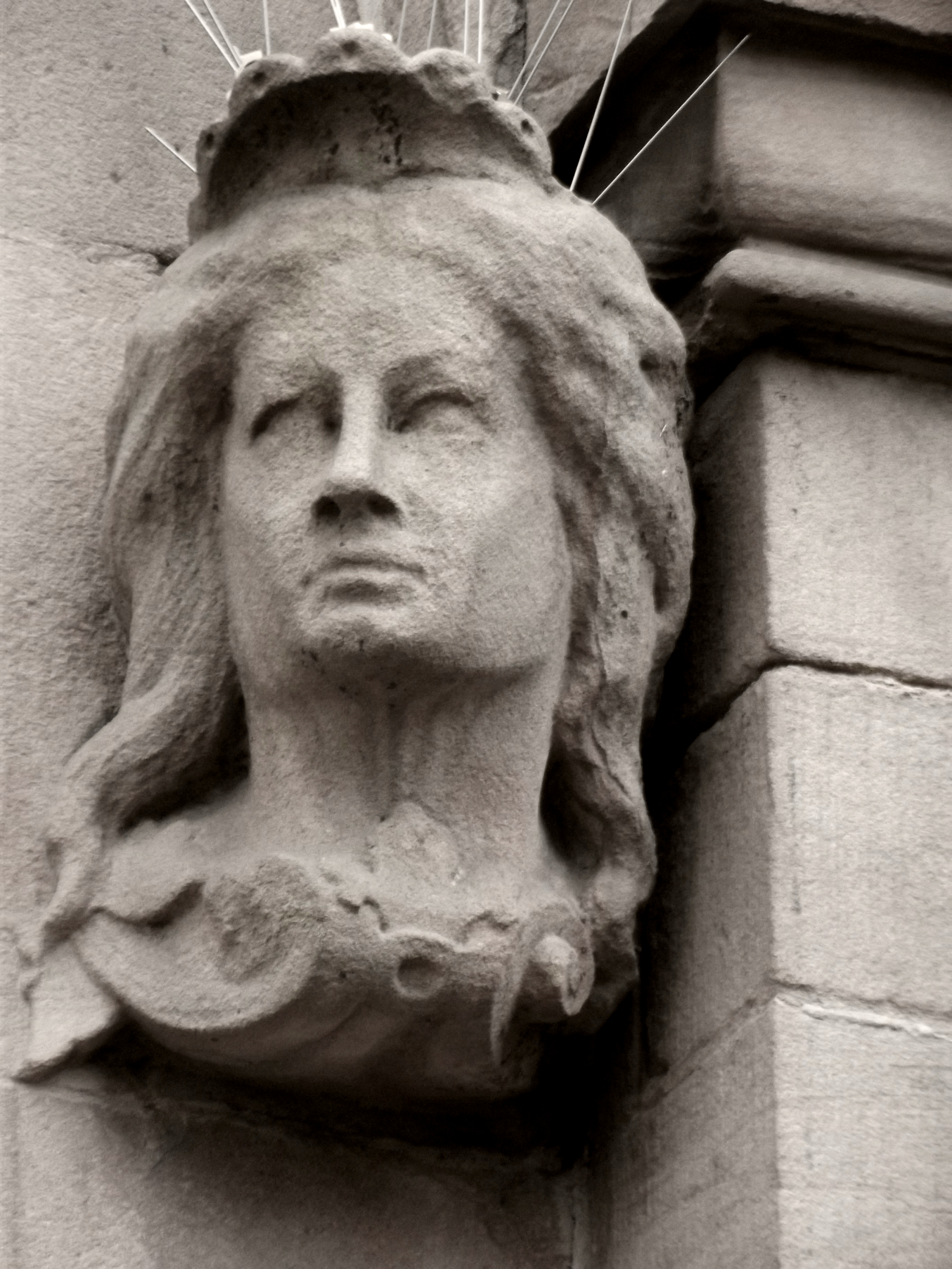 Sculpture on former Queen's Hotel, Barnsley, West Yorkshire, England. It is a Grade II listed building, designed by Wade & Turner, and completed in 1874. The stone carving was executed by Benjamin Payler. As of 2017 the building had been converted to offices. Showing portrait of Catherine Mawer.